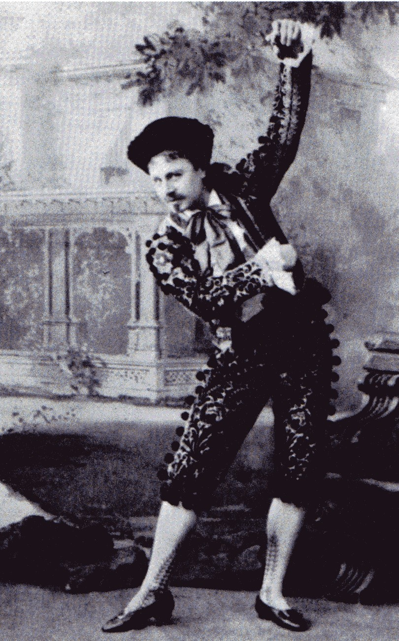 Photo taken by an unknown photographer at the Mariinsky Theatre, St. Peterbsurg, Russia of the danseur Pavel Gerdt in the ballet The King's Command, 1886.